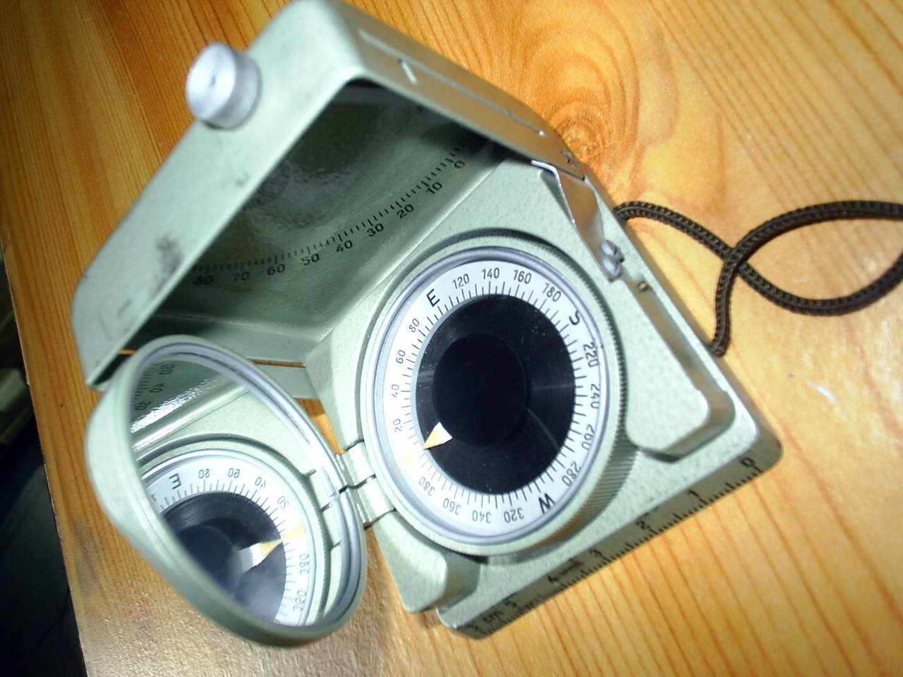 Compass in a metallic frame Author: Acf Date: 2005-08-25 Digicam REVUE DC 400